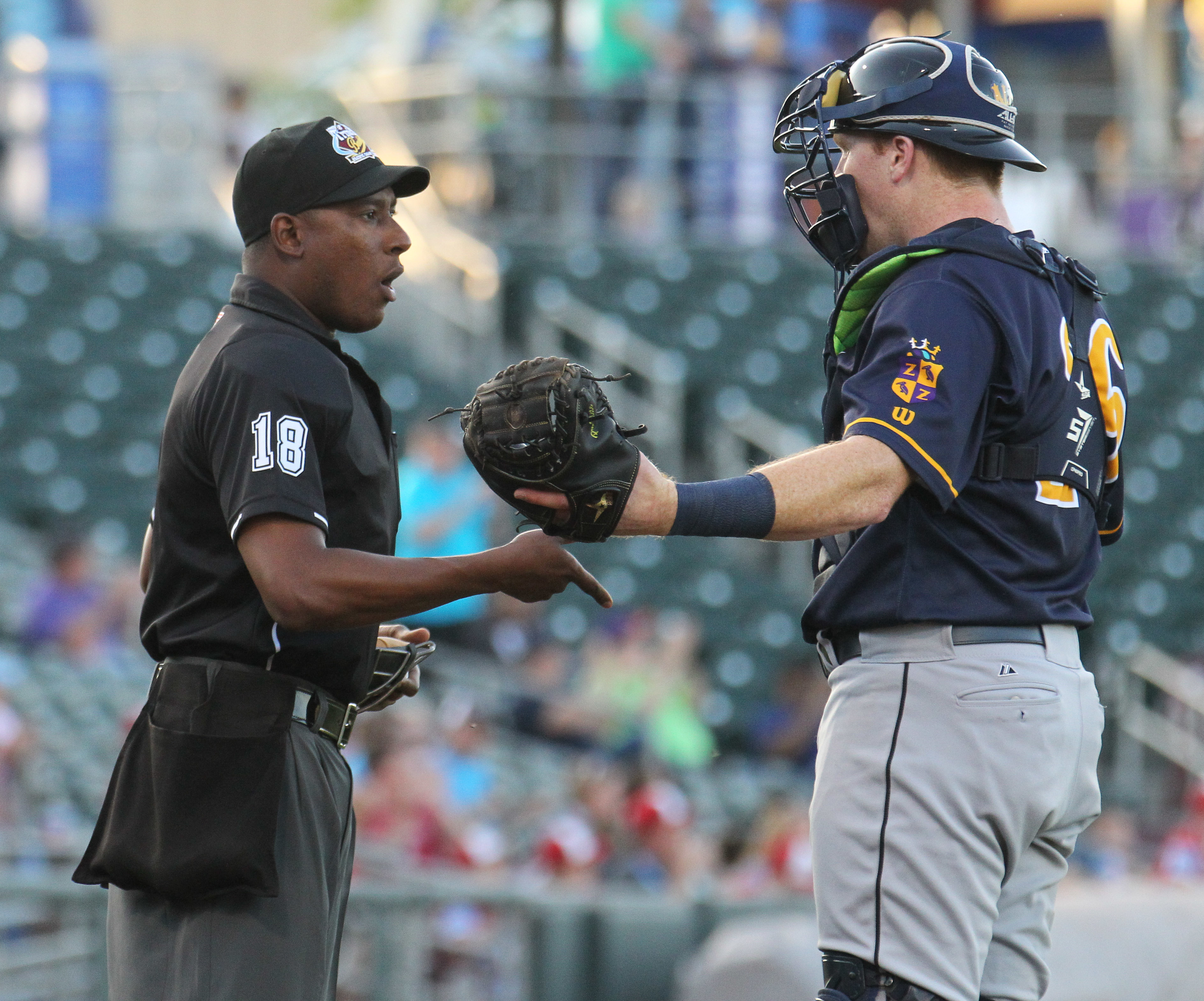 Umpire Ramon De Jesus (left) and catcher Chad Wallach of the New Orleans Baby Cakes (right) argue during a game at Werner Park in Omaha in 2018.